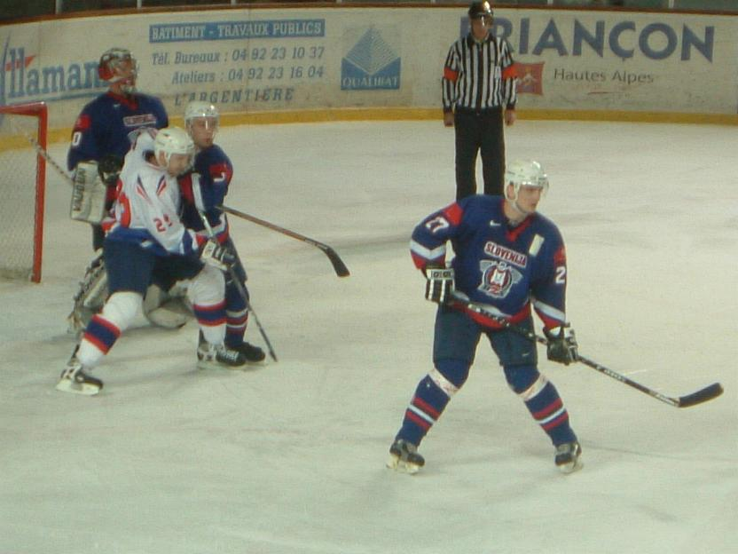 Miha Rebolj, slovenian ice hockey player.